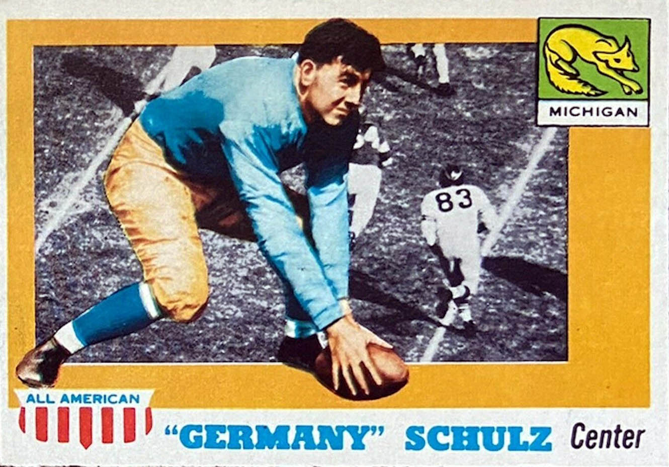 1955 Topps football card of Adolph "Germany" Schulz